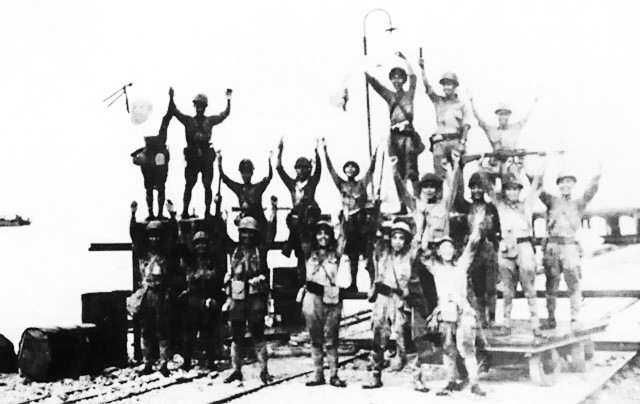 The Japanese 2d Division celebrates landing at Merak, Java - 1 March 1942